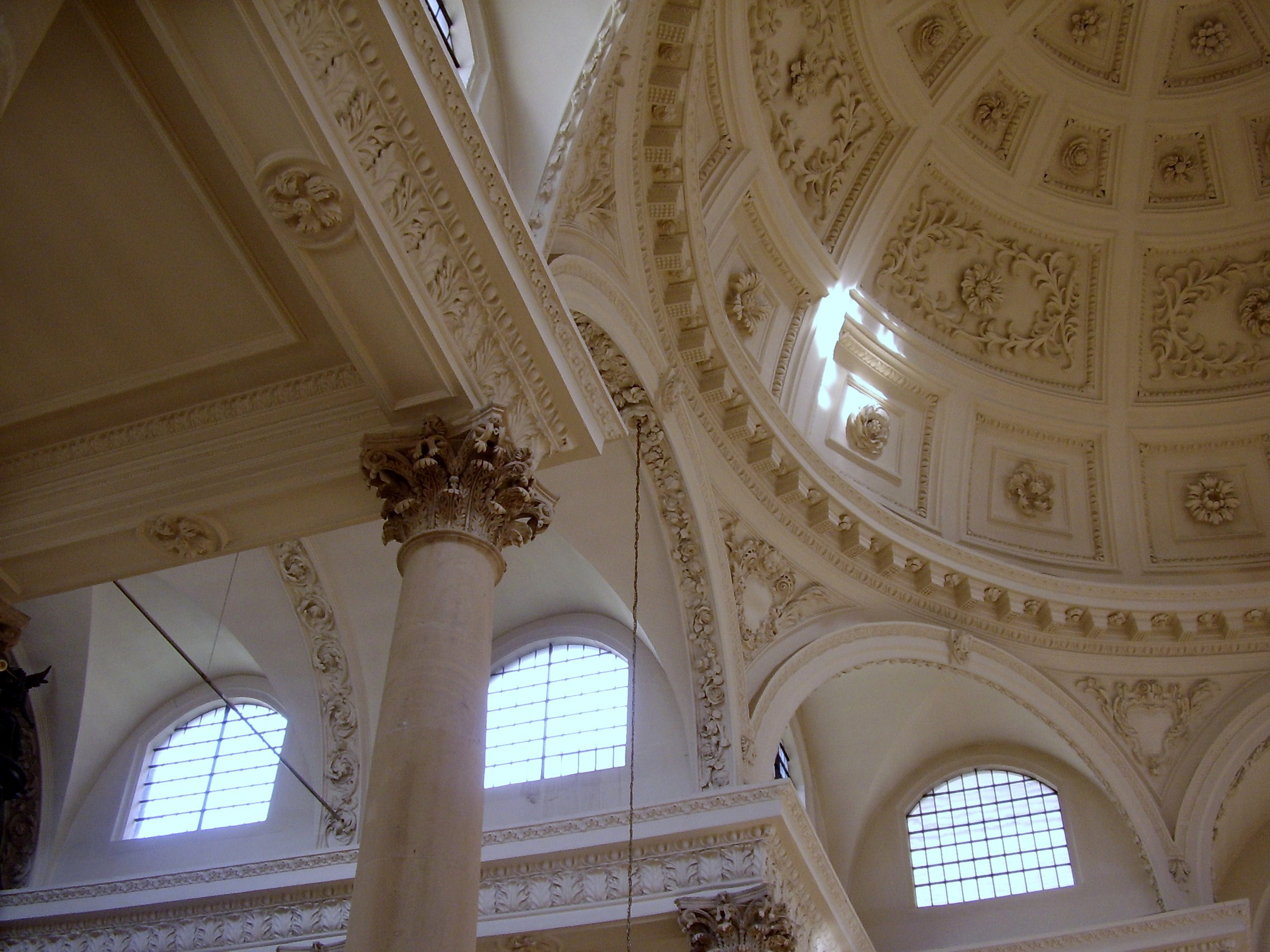 The dome , columns and windows of Christopher Wren's church of St Stephen Walbrook in the City of London.